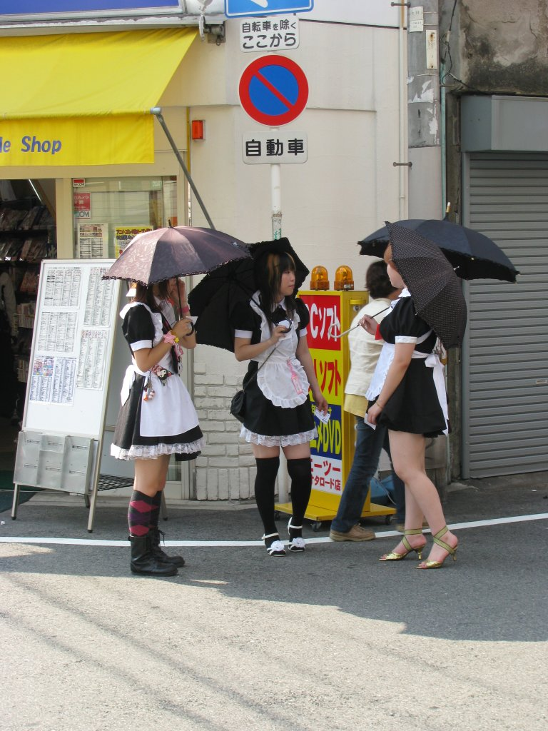 Teenage girls dressed as maids handing out promotional flyers for a Maid Cafe in Den-Den Town, Osaka, Japan